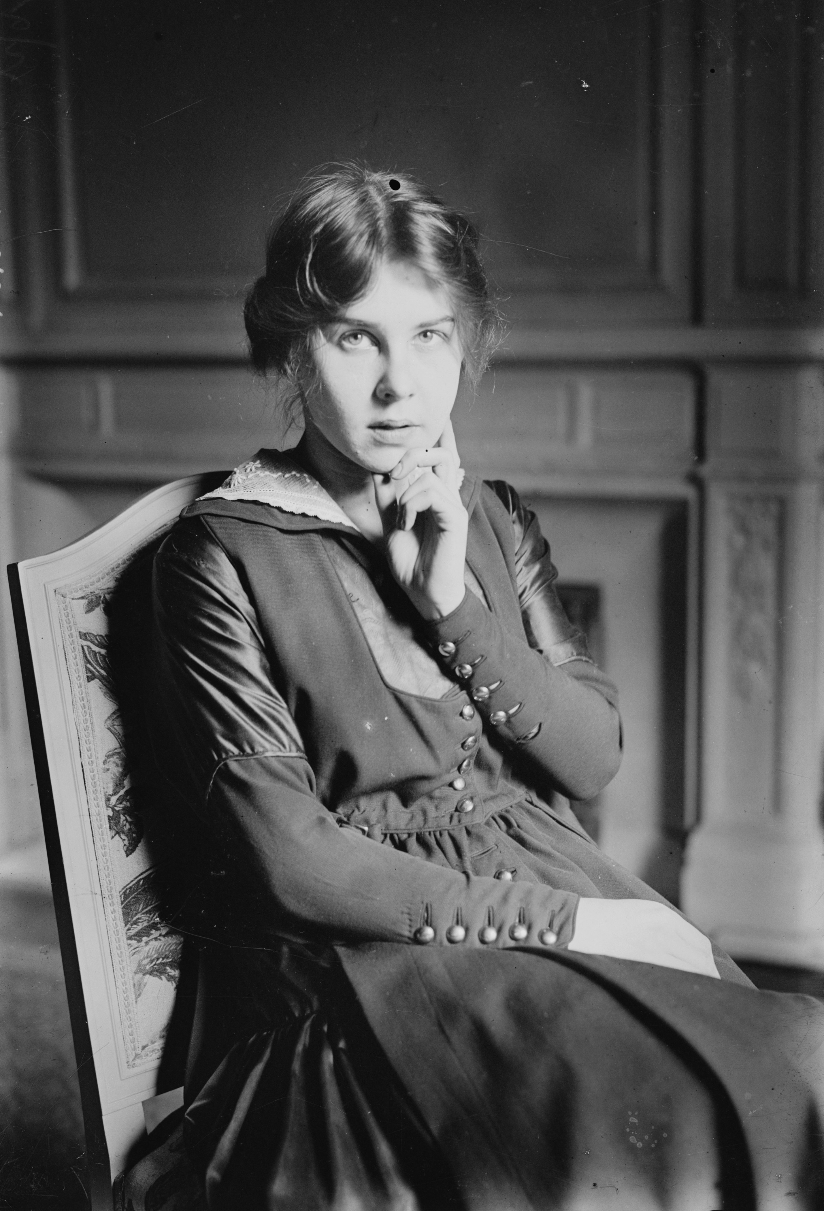 Lydia Lopokova circa 1915-1920. The original image is dated January 26, 1921 but that may not be the date taken but the last date published.